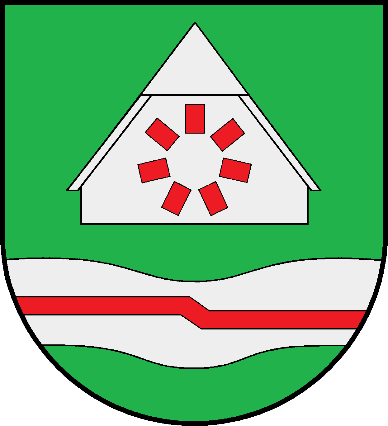 Coat of arms of the municipality Kühsenin Schleswig-Holstein, Germany.